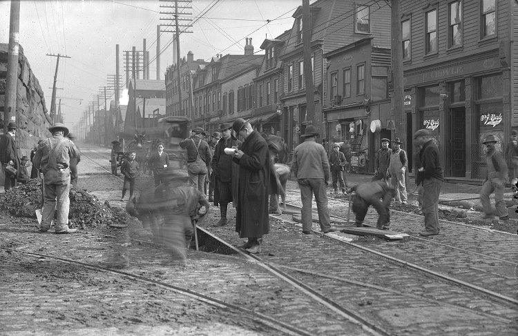 Work in Hazelwood, Pittsburgh, 1906